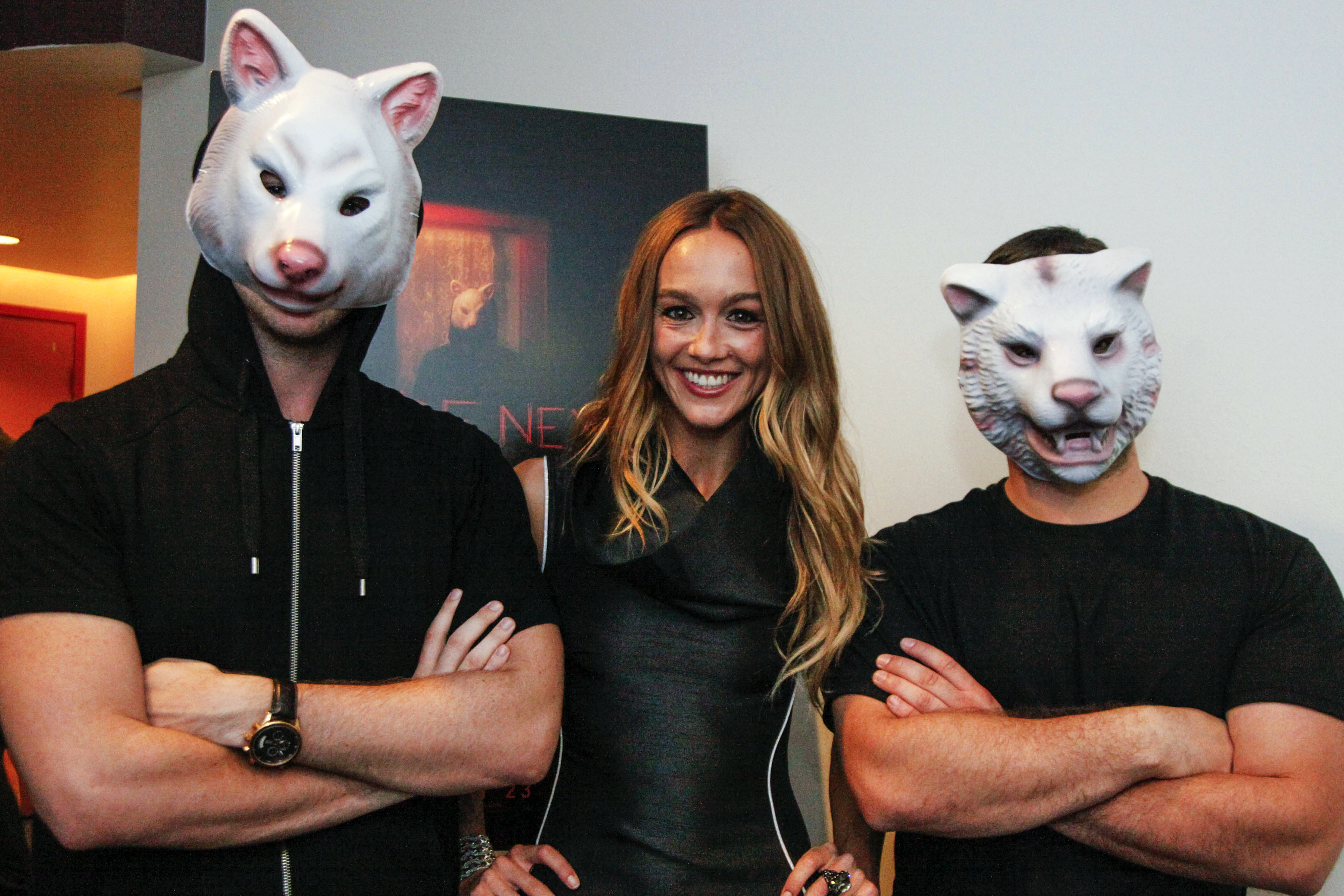 Miami Film Society & O Cinema members, were treated to You're Next a brilliant fresh twist on home-invasion horror. Ferocious + charming lead actress Sharni Vinson was in attendance